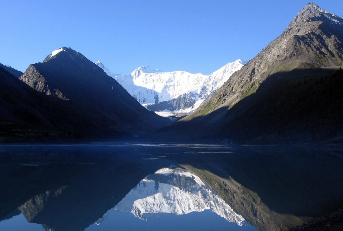 Belukha Mountain